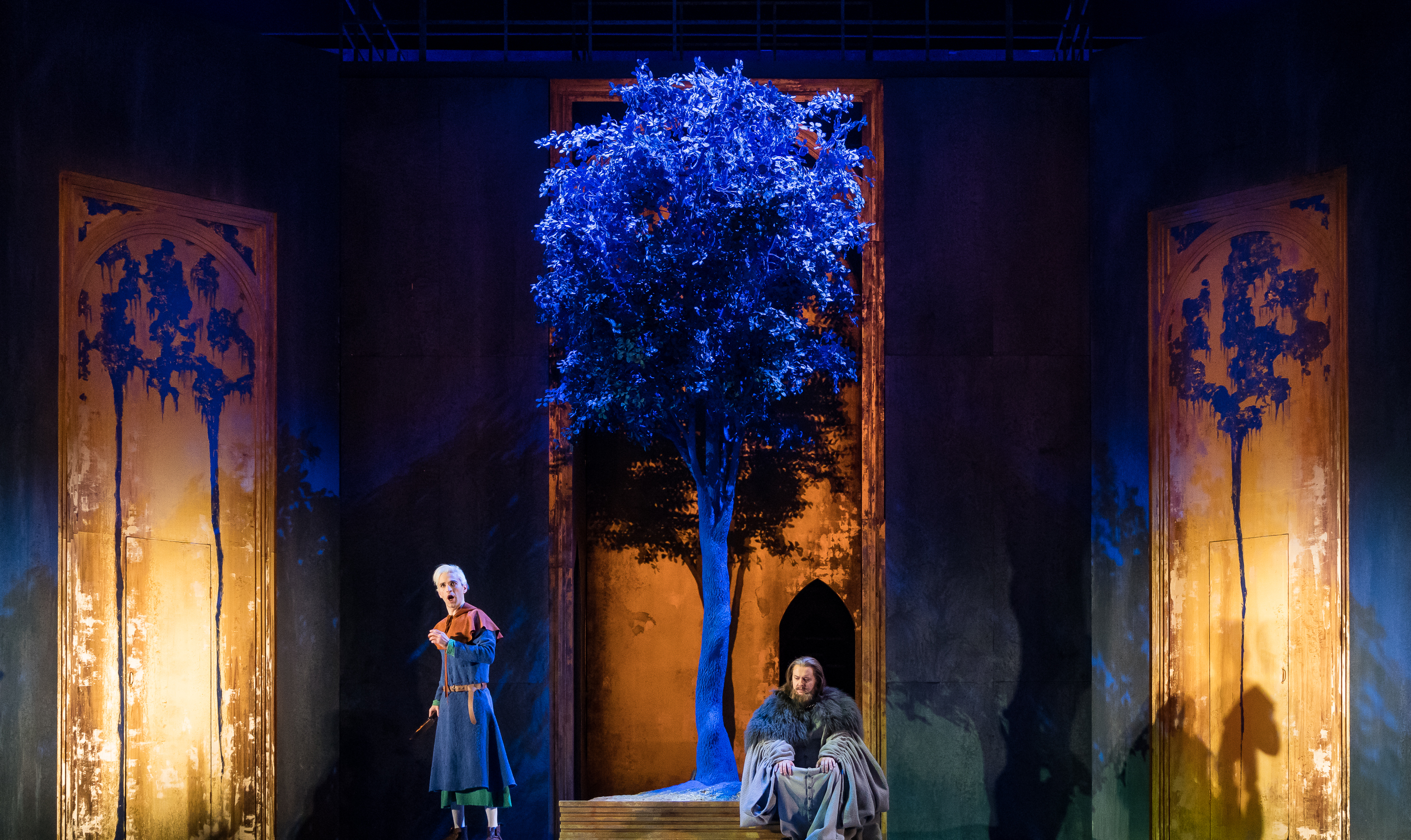 Academy of Music Philadelphia, PA An opera by George Benjamin and Martin Crimp. Photo by Steven Pisano